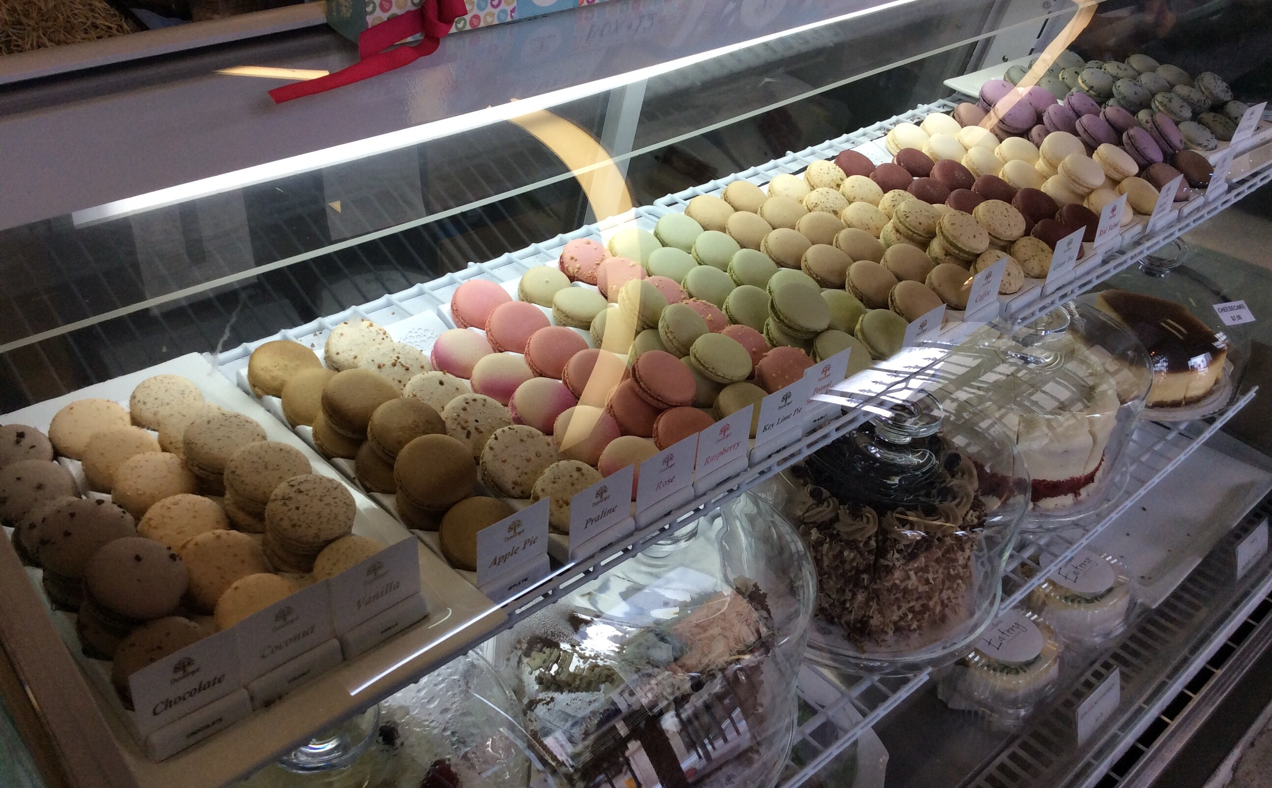 Macaroons.